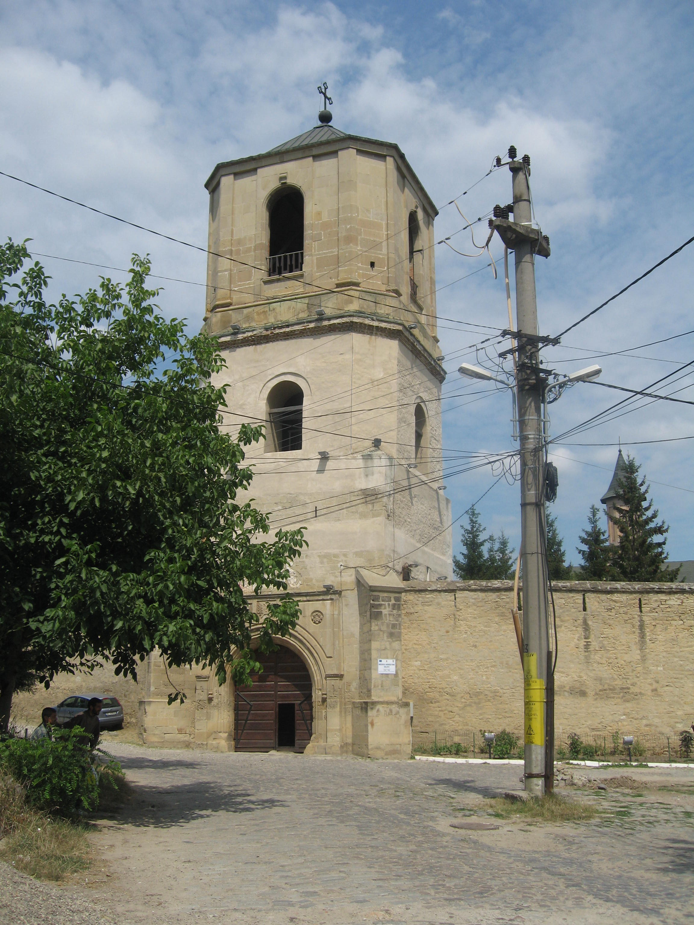 Manastirea Galata